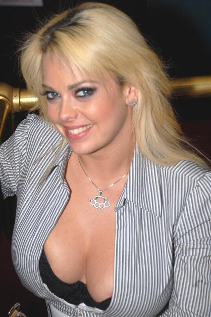 Starla Sterling at Porn Star Karaoke event on Oct. 2, 2007